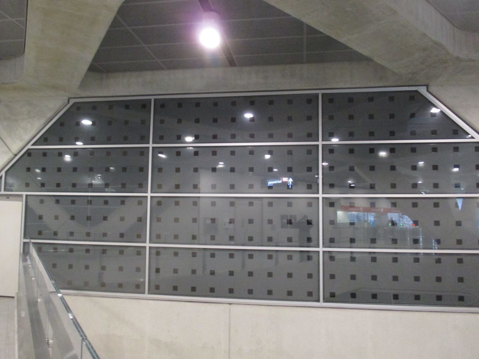 At York University station, the artwork Piston Effect should detect the passage of a subway train and produce a black and white lighting display.